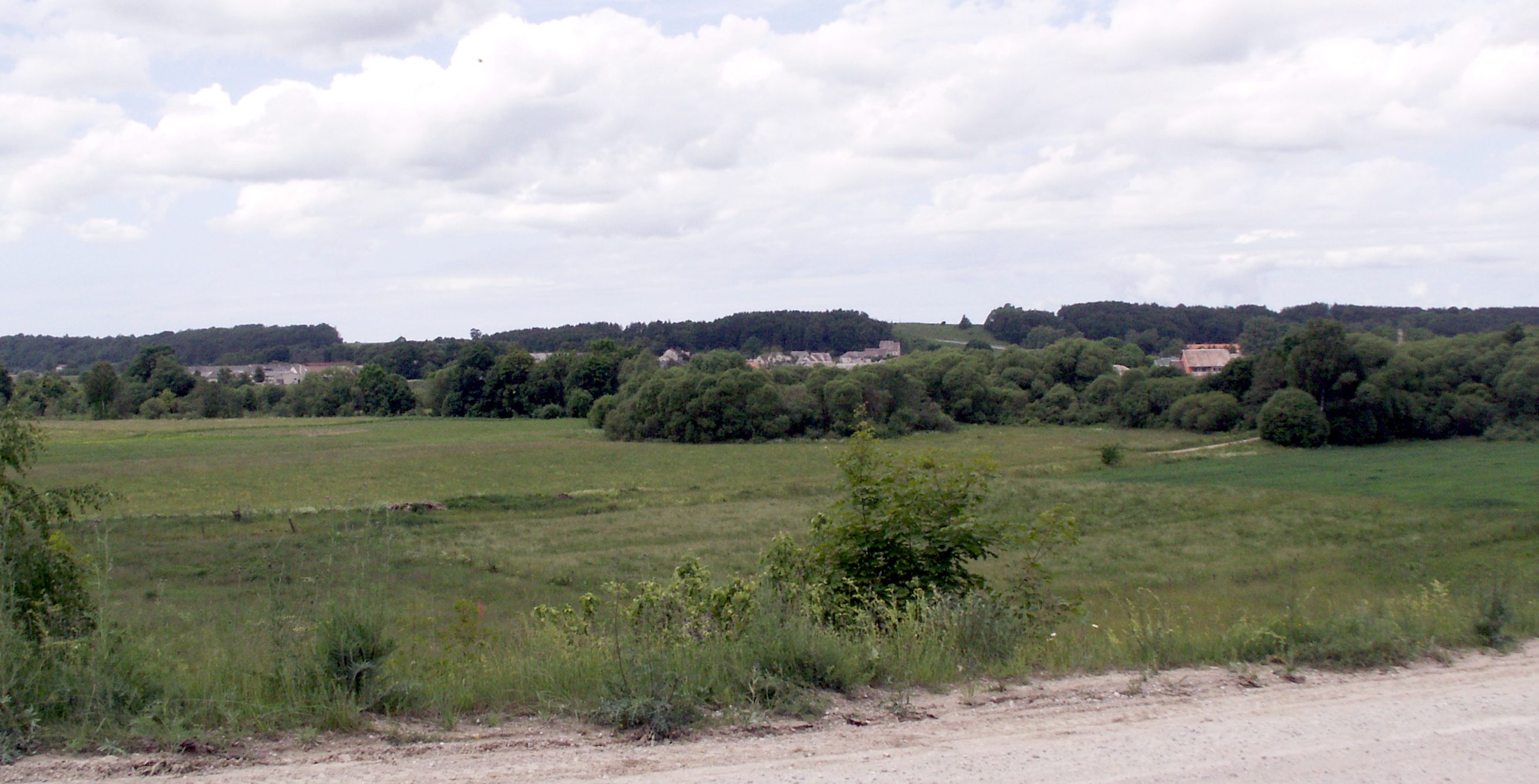 Settlement Kartena, Kretinga district, Lithuania